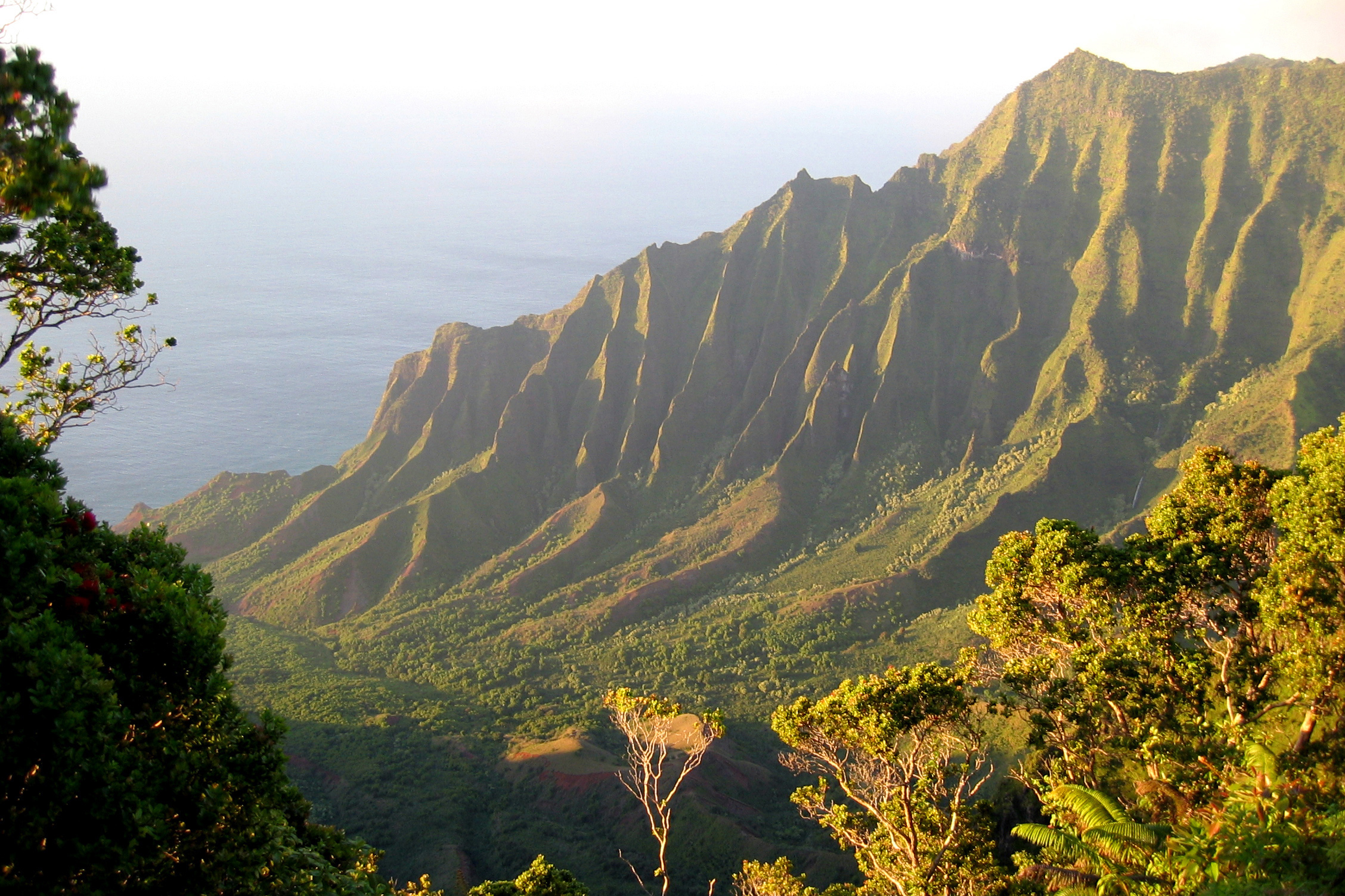 Overlooking the Kalalau Valley and the eroded, green cliffs of the Na Pali Coast in late-afternoon light. From an overlook along Rt 550 in the Koke'e State Park, Kauai Island, Hawaii.